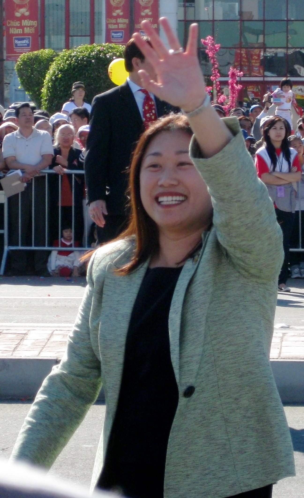 Orange County supervisor Janet Nguyen.